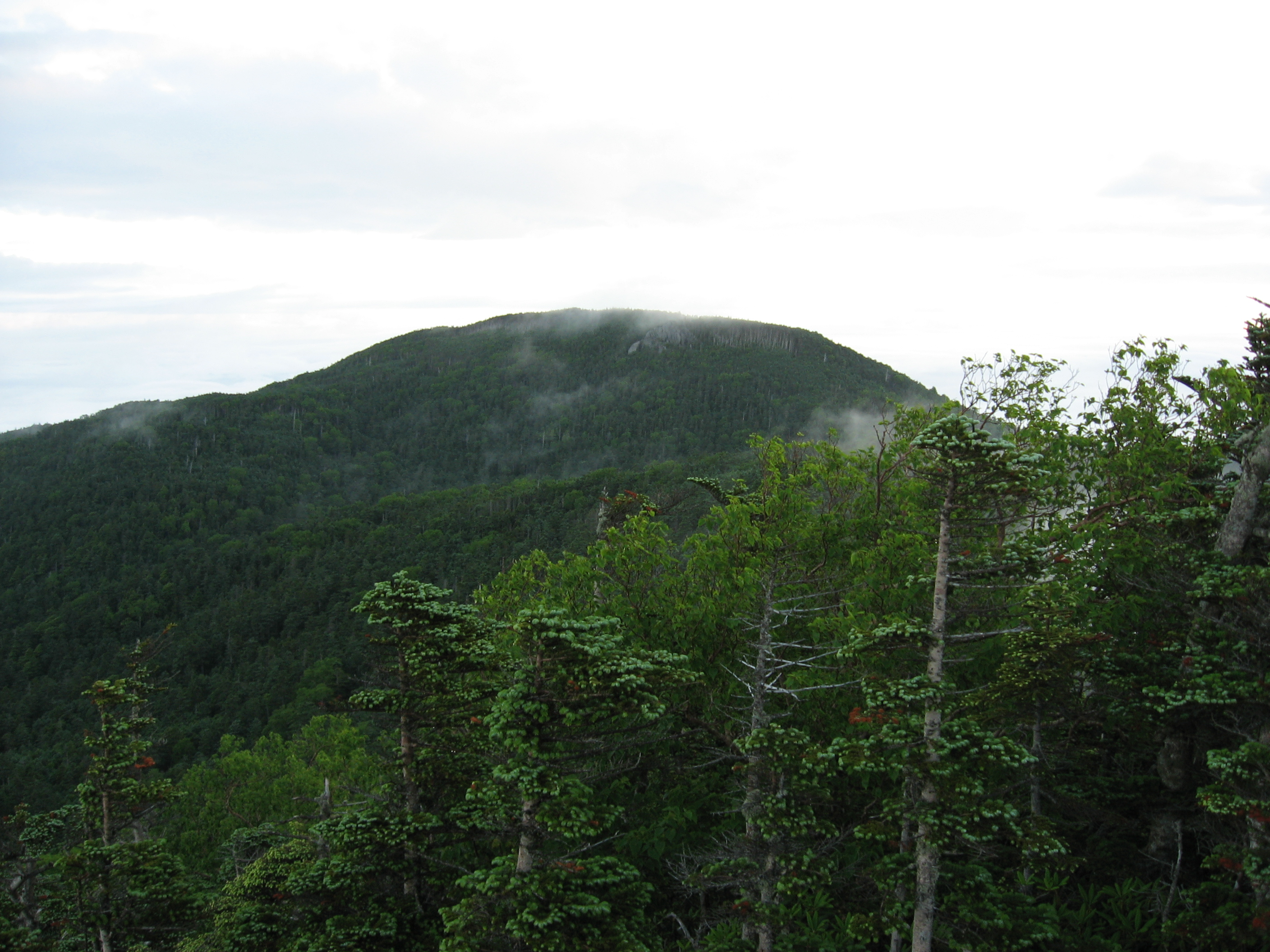 Mount Sanpo (Sanpo-zan) as seen from Mount Kobushi (Kobushi-ga-take) in the Okuchichibu Mountains, Japan